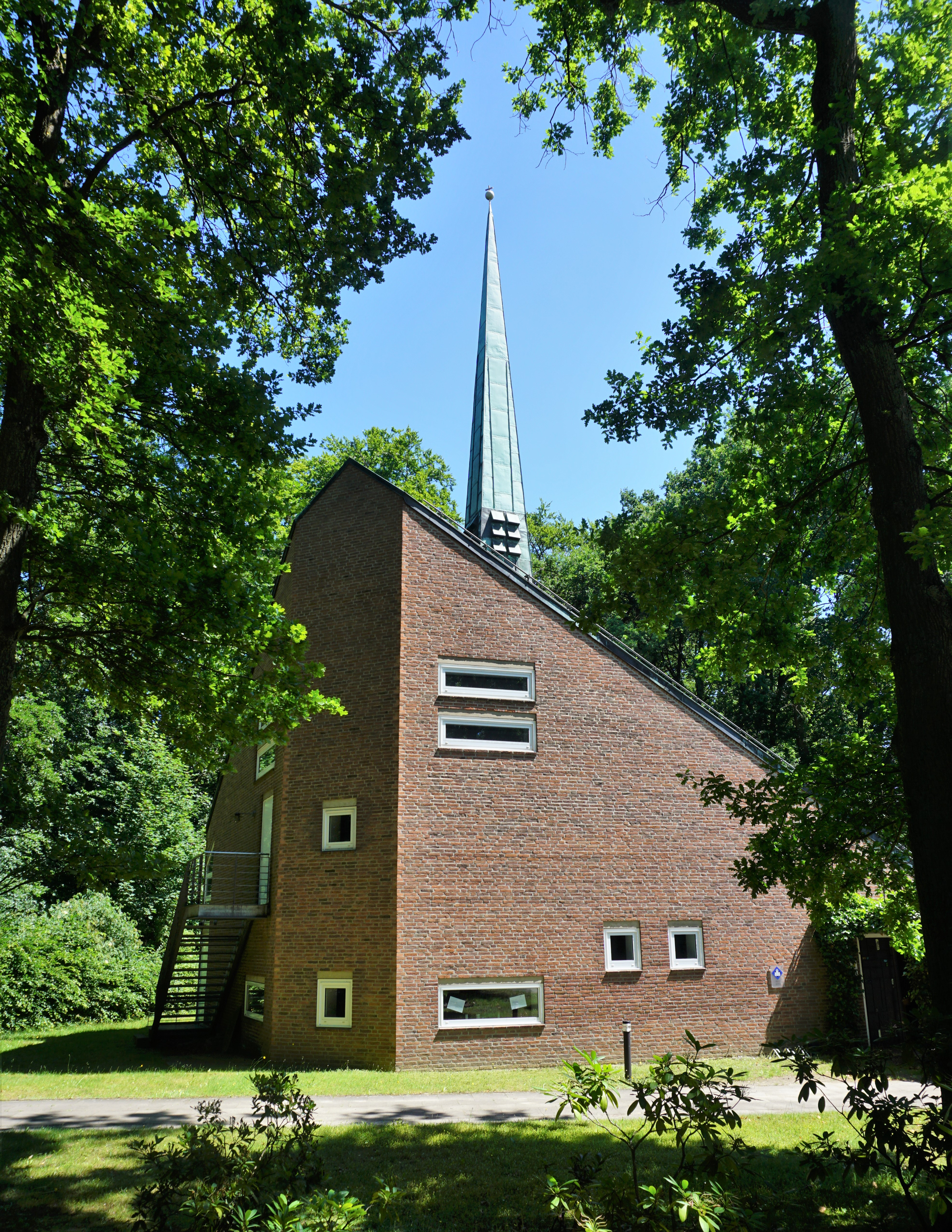 View from the west to the Matthew church in Barendorf in the district of Lüneburg.